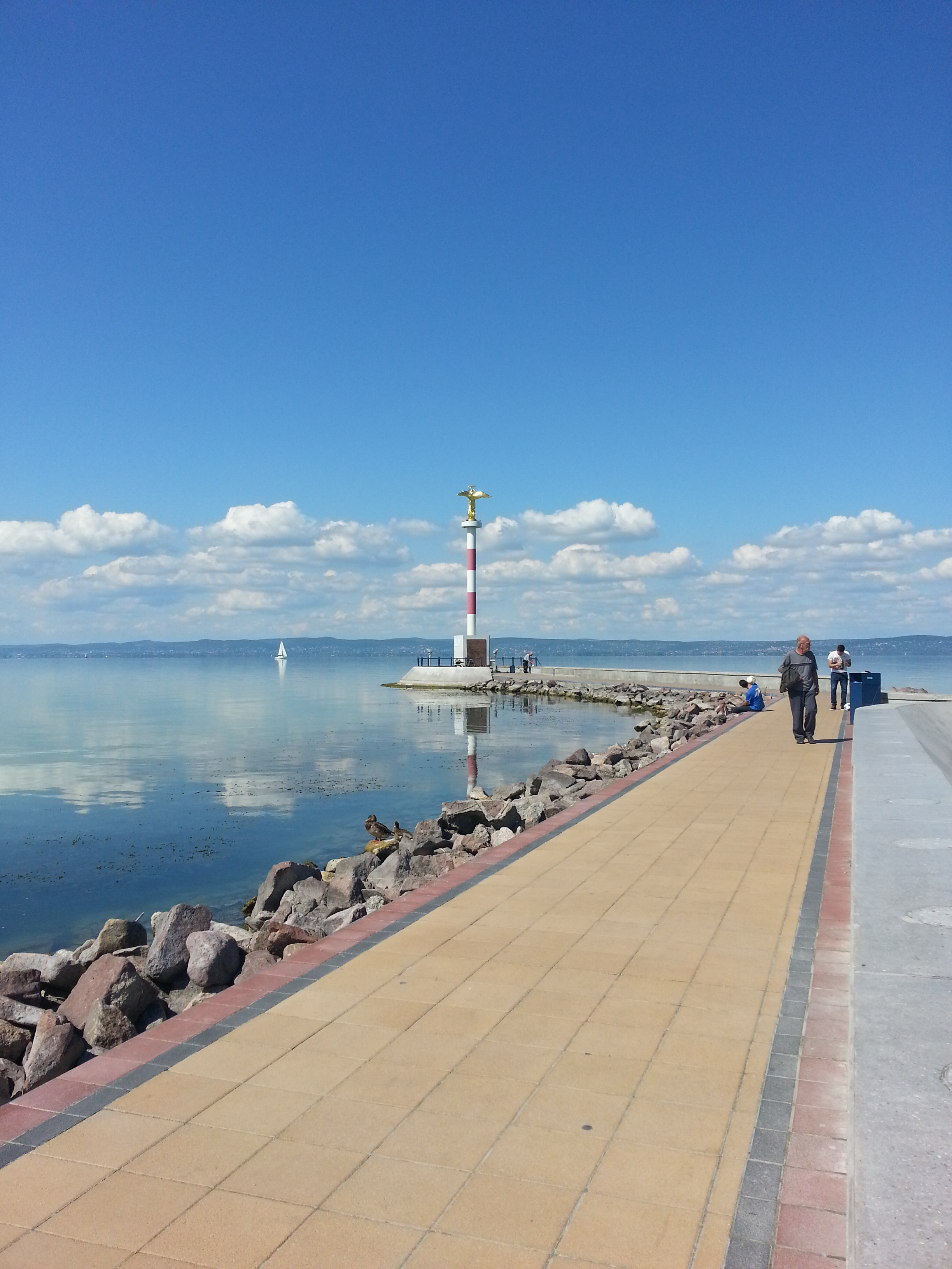 View of Lake Balaton from the shore of Siofok